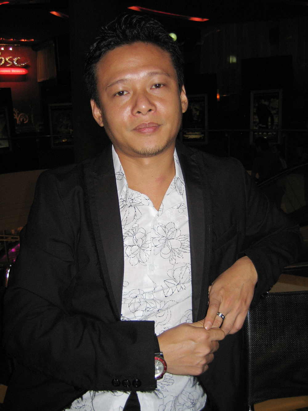 Taiwanese actor, film director and screenwriter Lee Kang-sheng attends the Harvest of Talents Awards ceremony at the World Film Festival of Bangkok at Esplanade Cineplex in Bangkok. His 2007 film Help Me Eros, was among the nominees, and won a special jury award.